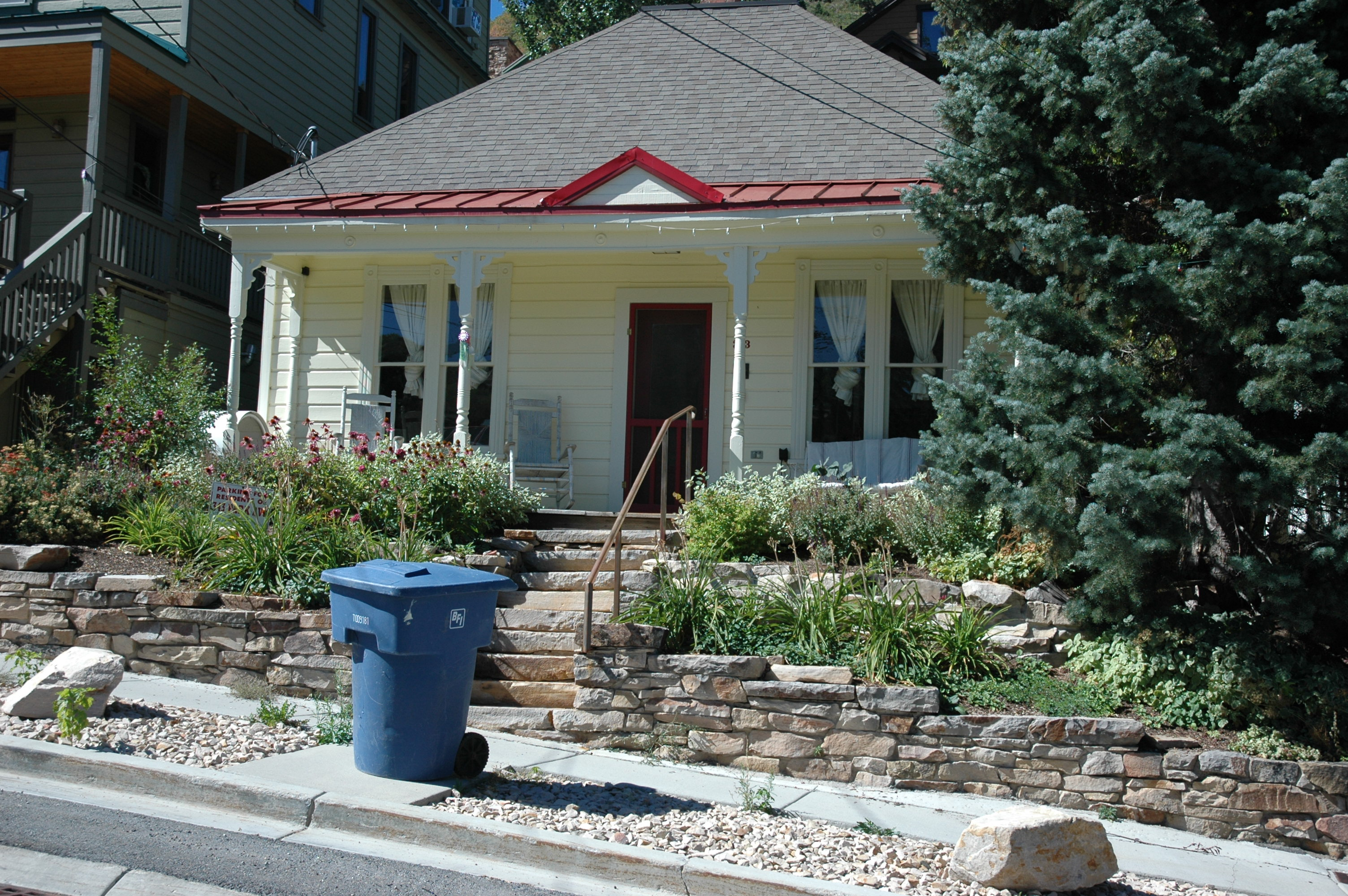 The house at 343 Park Avenue, a historic home in Park City, Utah, United States.